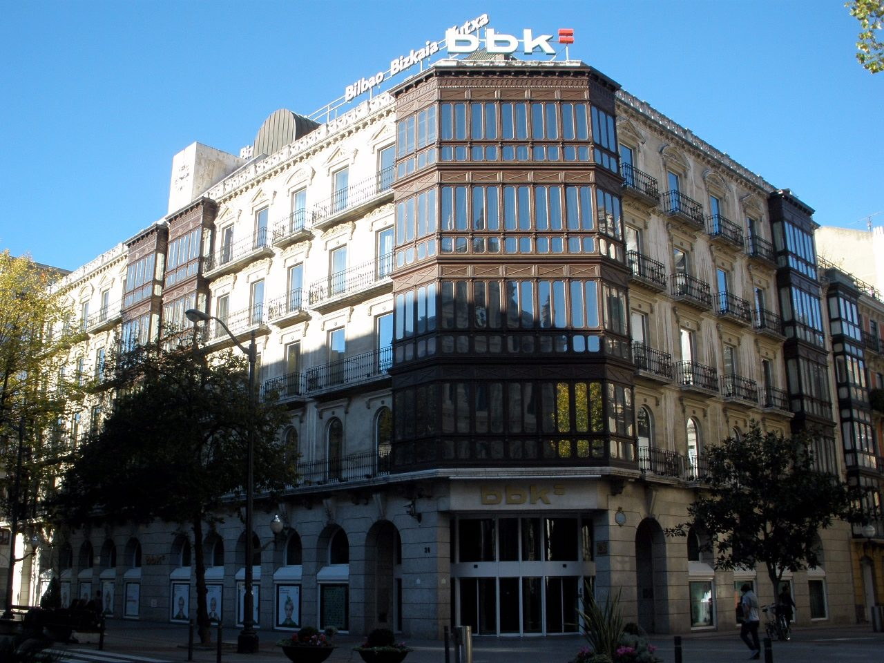 Edificio BBK en la Gran Vía de Bilbao